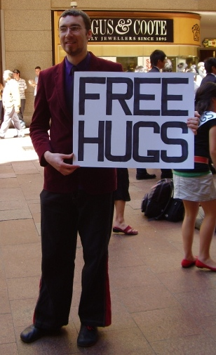 Crop of File:Juan Mann.jpg